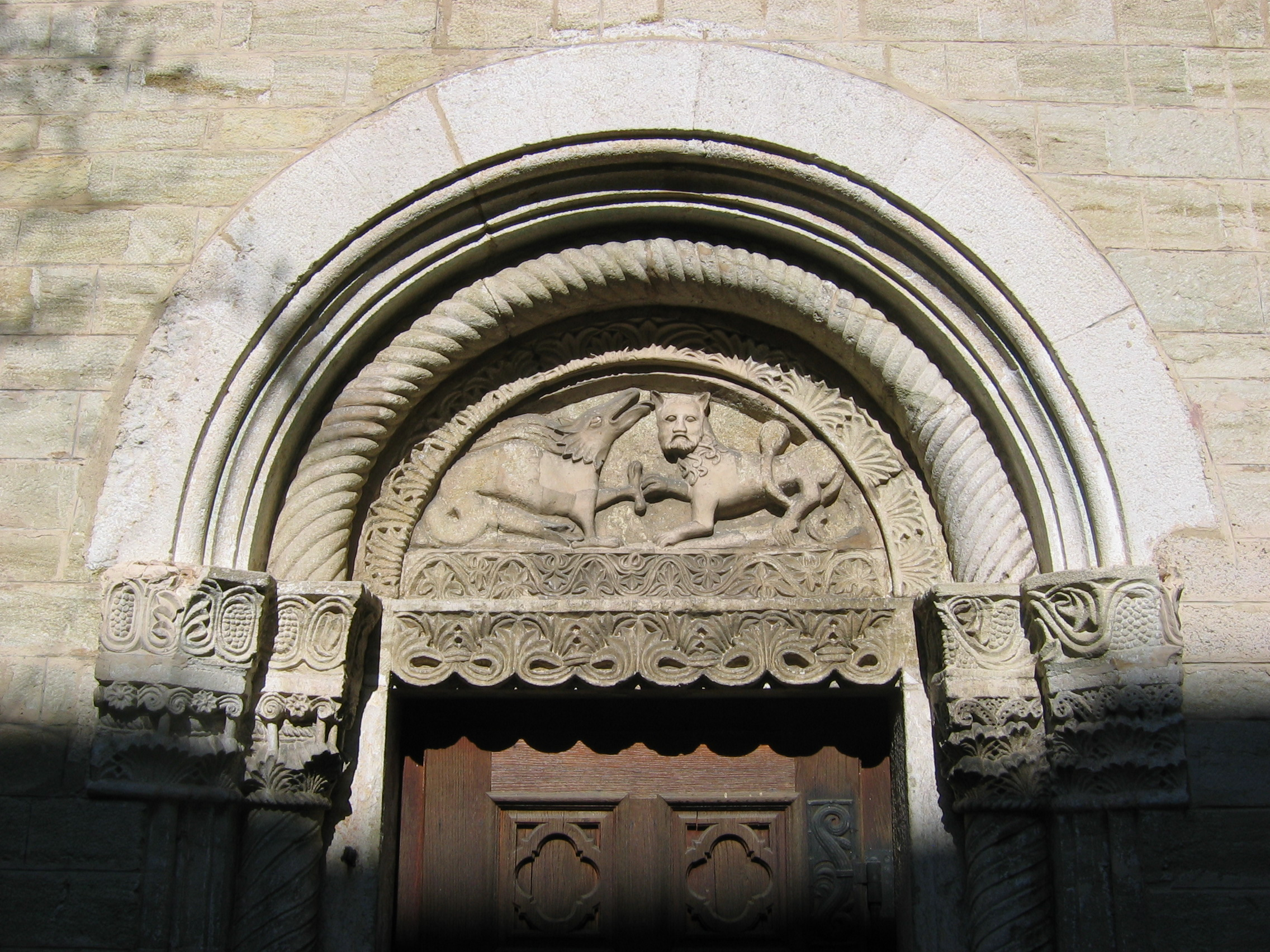 St. Peter, Straubing, South Portal.